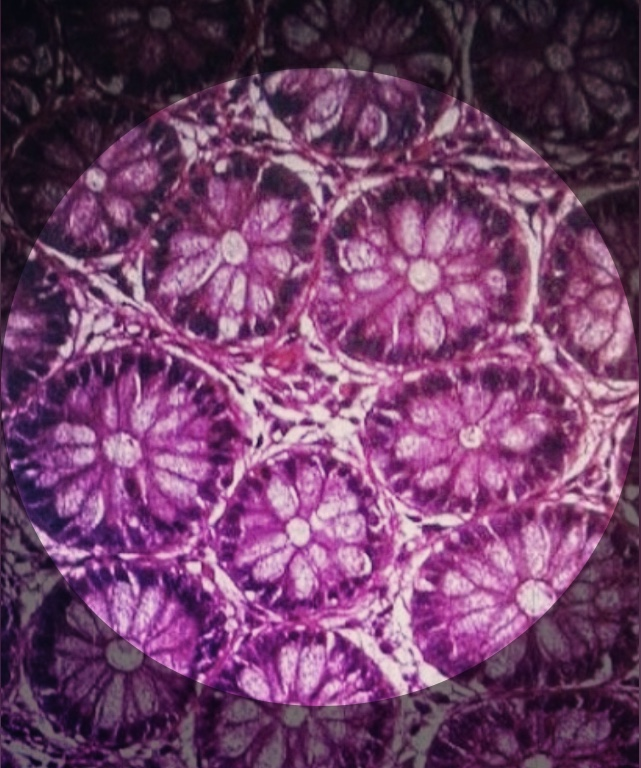 This photo is of the normal human colon. When cut in cross section, the colonic crypts appear like an evenly spaced bed of flowers. Even when maloriented, or tangentially sectioned, the normal colonic mucosa shows an orderly distribution of colonic crypts.